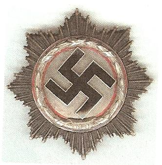 German Cross in Silver.